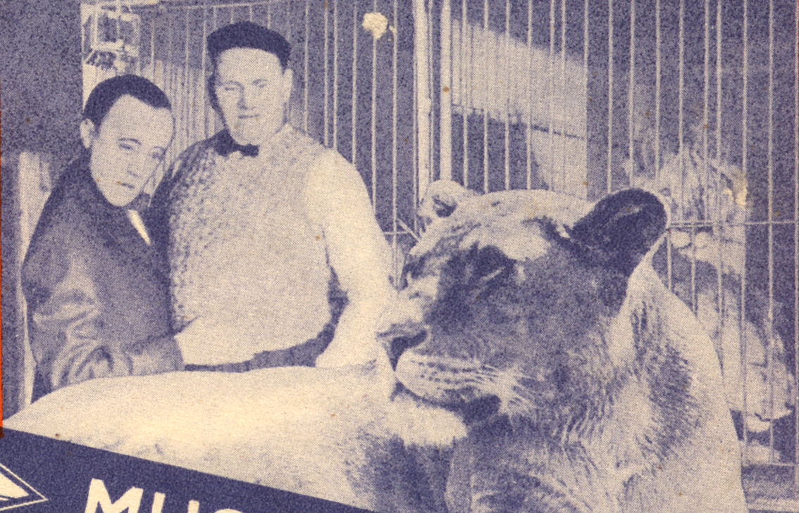 Still from the Swedish movie Fridolf i lejonkulan (Fridolf in the Lion's Den), 1933. Main actor Fridolf Rhudin to the left in picture.